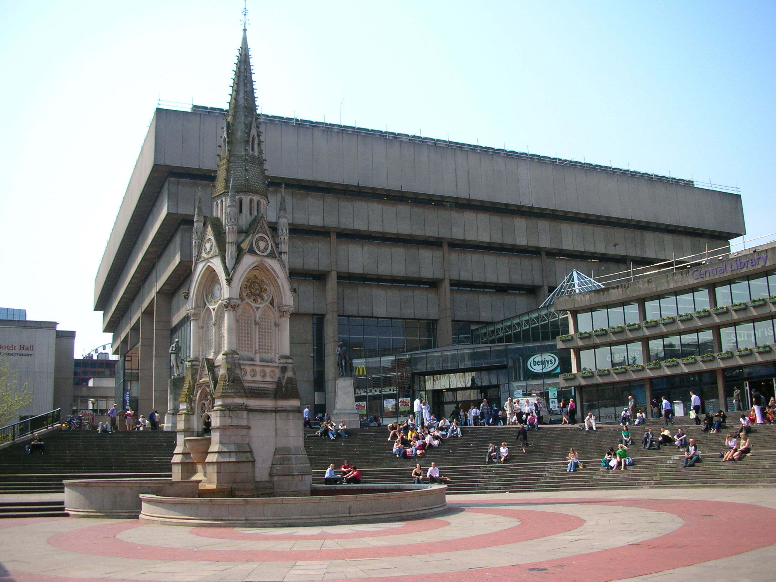 Chamberlain Square — with the Birmingham Central Library, Chamberlain Memorial, and Paradise Forum shopping centre, in central Birmingham, England. Credits Photographed by me. Oosoom